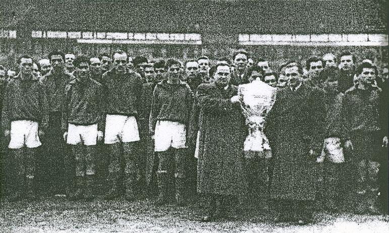 Cup winner Dorogian